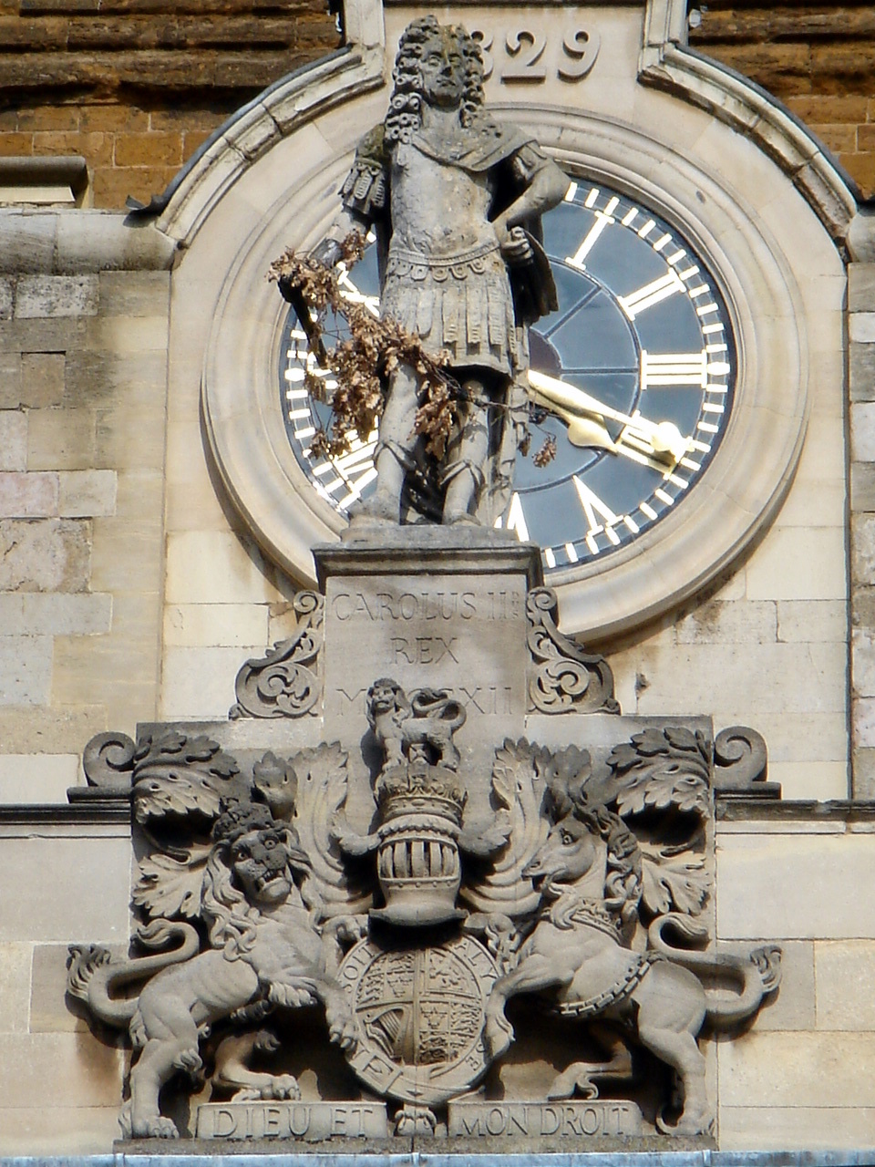 A statue of King Charles II by John Hunt was erected on the portico parapet of All Saints' Church (Northampton) in 1712 in memory and thanksgiving for his part in the rebuilding of the church.